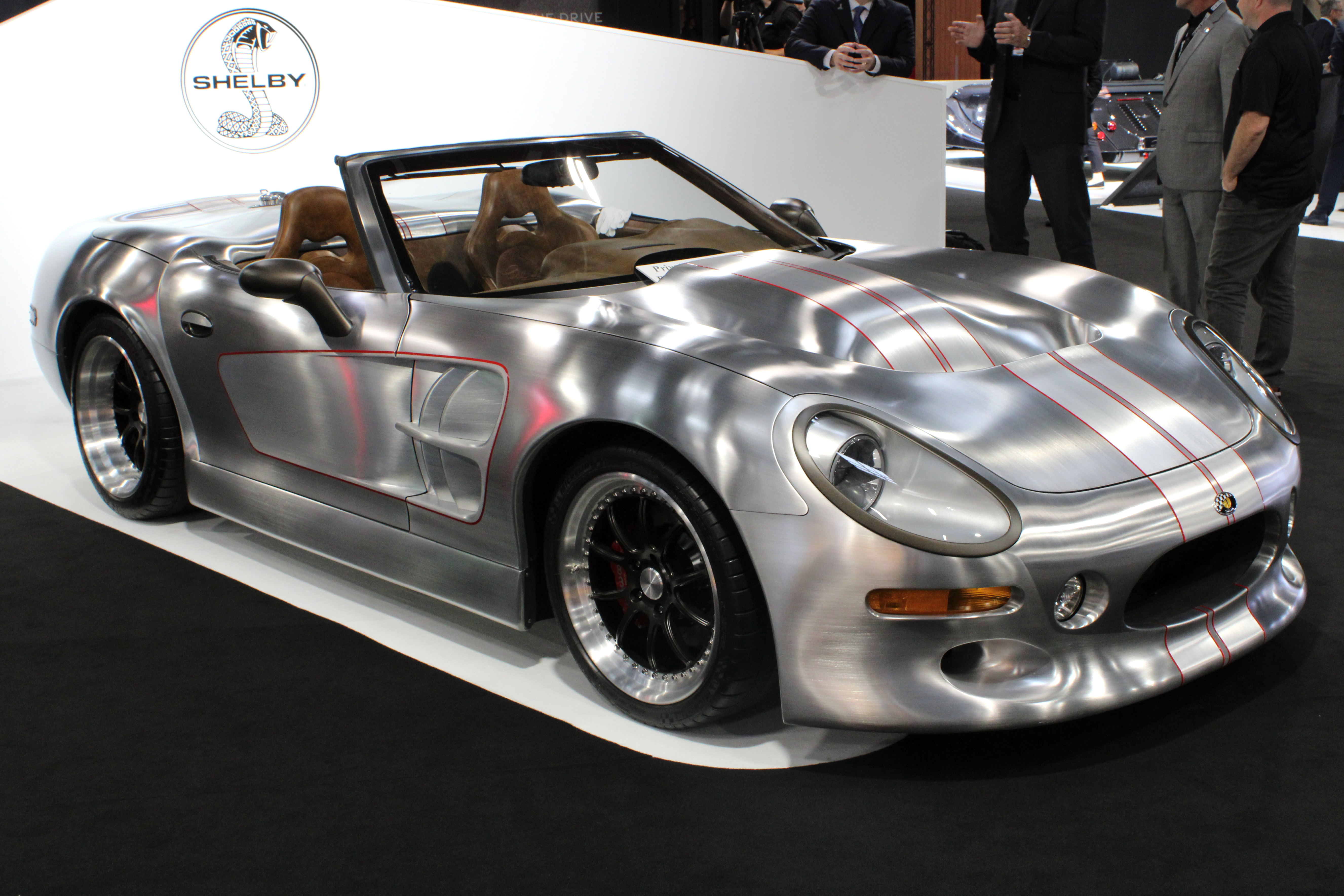 Shelby Series II at Paris Motor Show 2018